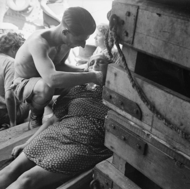 The British Mandate in Palestine 1917-1948 Illegal immigrants arriving into Palestine: Lieutenant M C K Shaw of the Royal Army Medical Corps attending to a sick Jewish woman, one of many who was ill on arriving at Haifa, on board the troopship EMPIRE RIVAL on the way to camp in Cyprus.